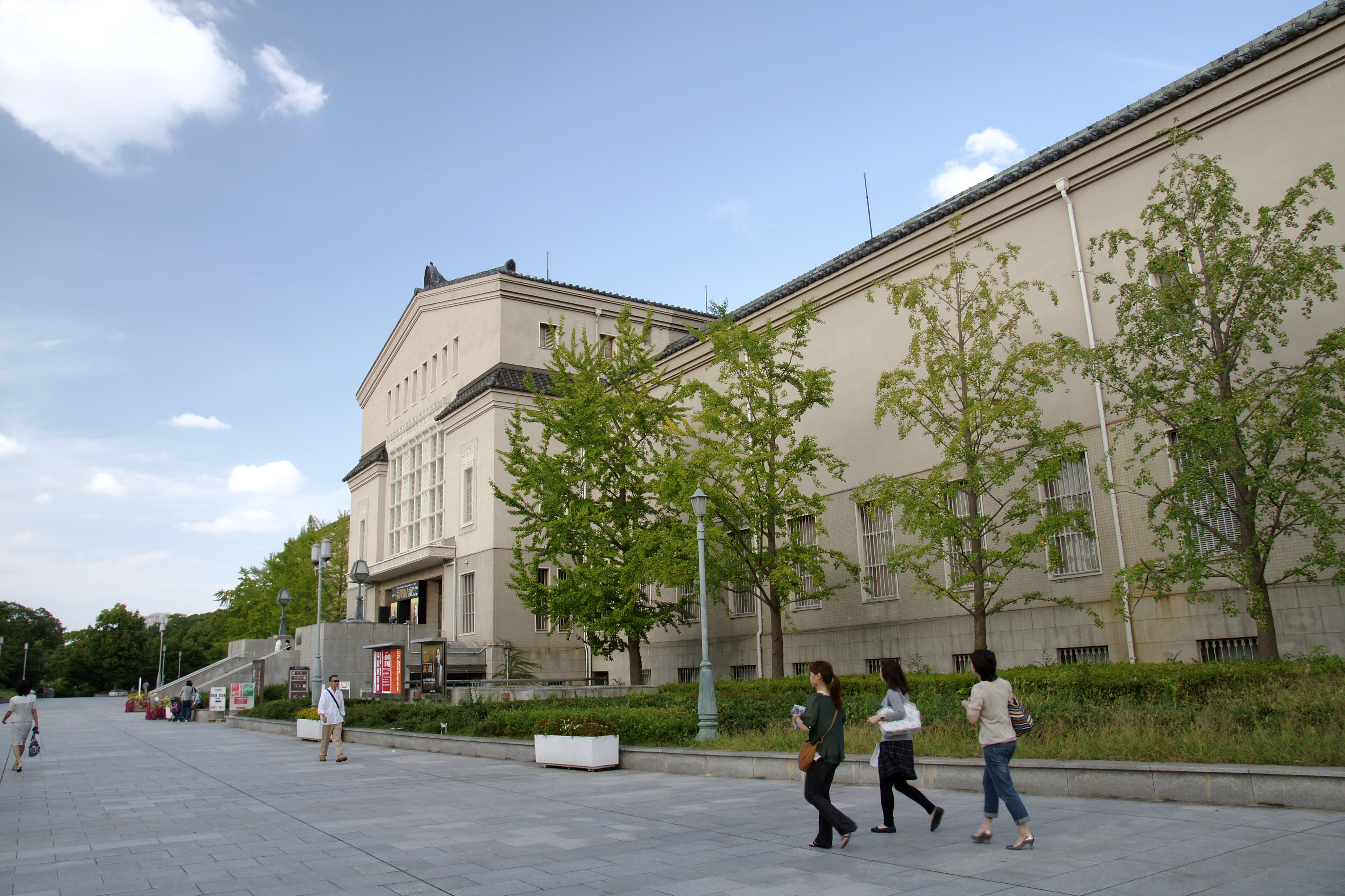 Osaka Municipal Museum of Art in Osaka, Osaka prefecture, Japan